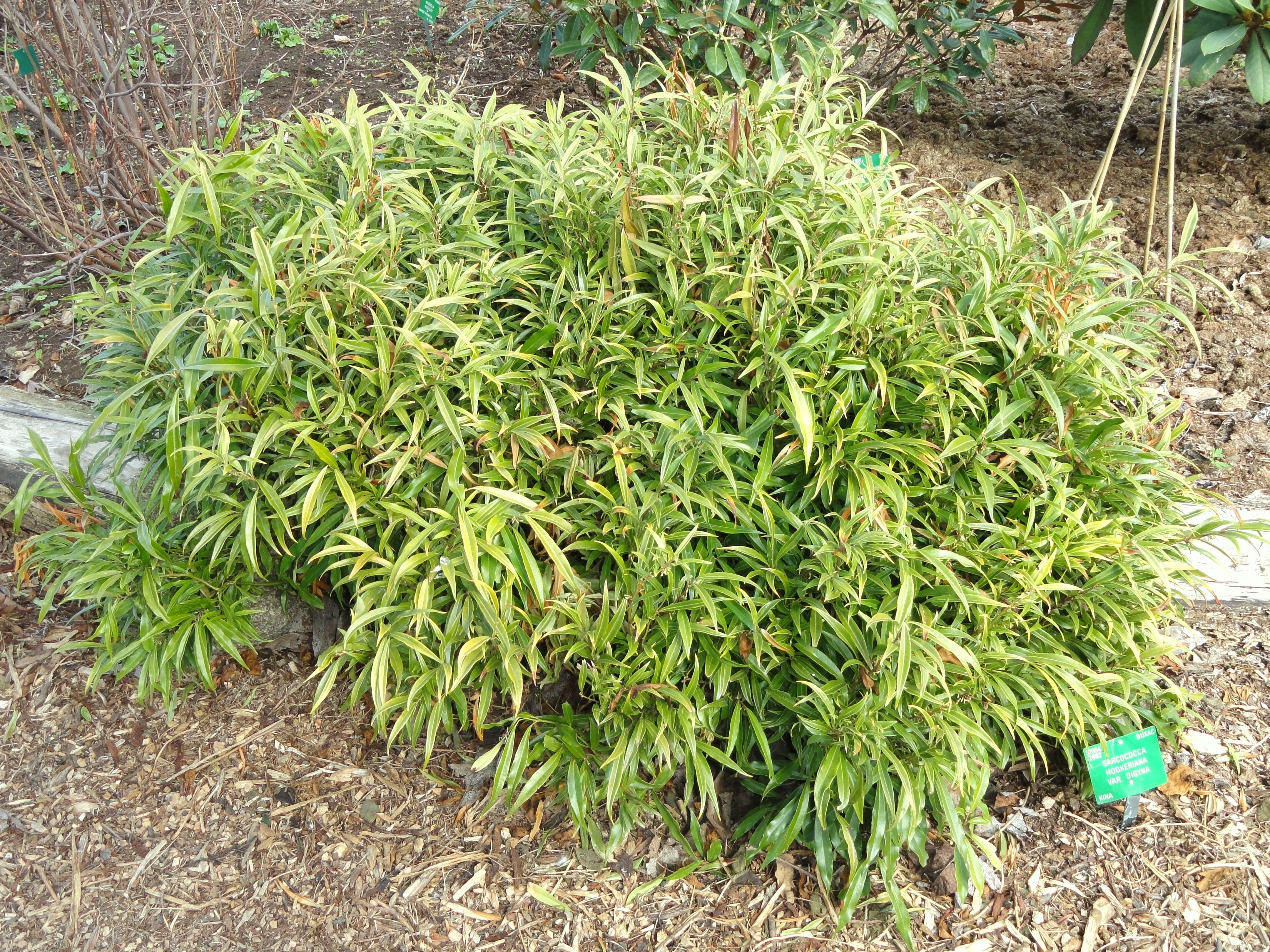 Botanical specimen in the University of Copenhagen Botanical Garden, Copenhagen, Denmark.